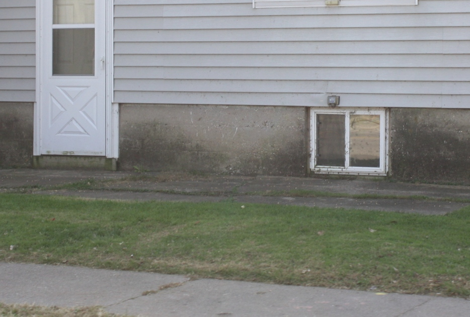 Flood damage to a home in downtown Gays Mills, Wisconsin after floods in 2007 and 2008; photographed in 2010.